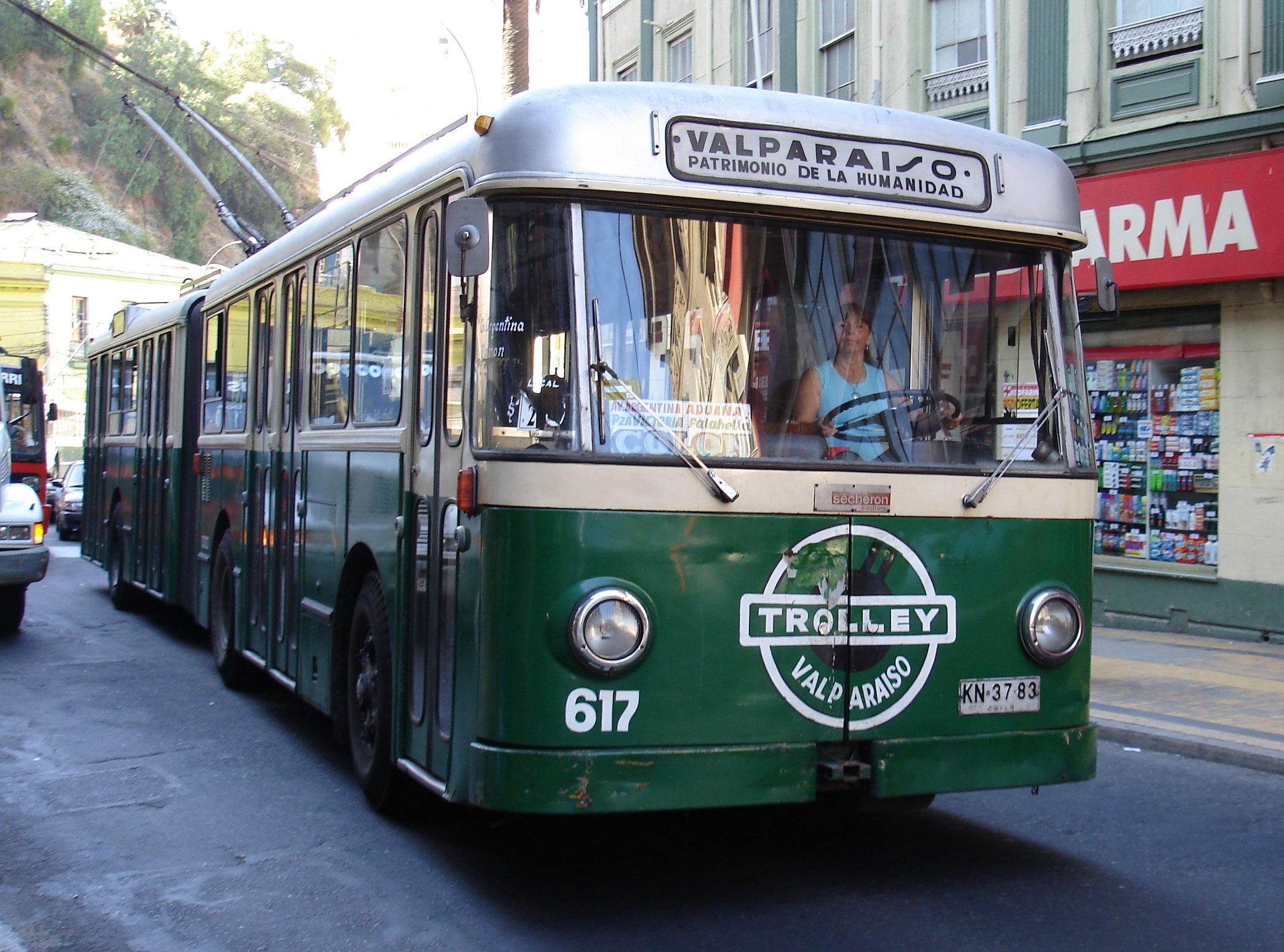 Valparaiso trolleybus 617 (ex-Geneva 617) was built in 1965 by Berna. It remained in regular passenger service until mid-2013, when it was removed from service indefinitely, due to mechanical problems, and its status was changed to permanently retired in early 2015.